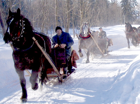 kulig in Gorce, cropped